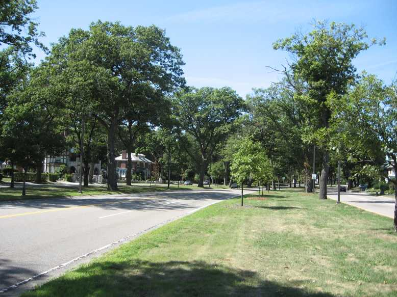 The Arborway, Jamaica Plain MAAugust, 2007